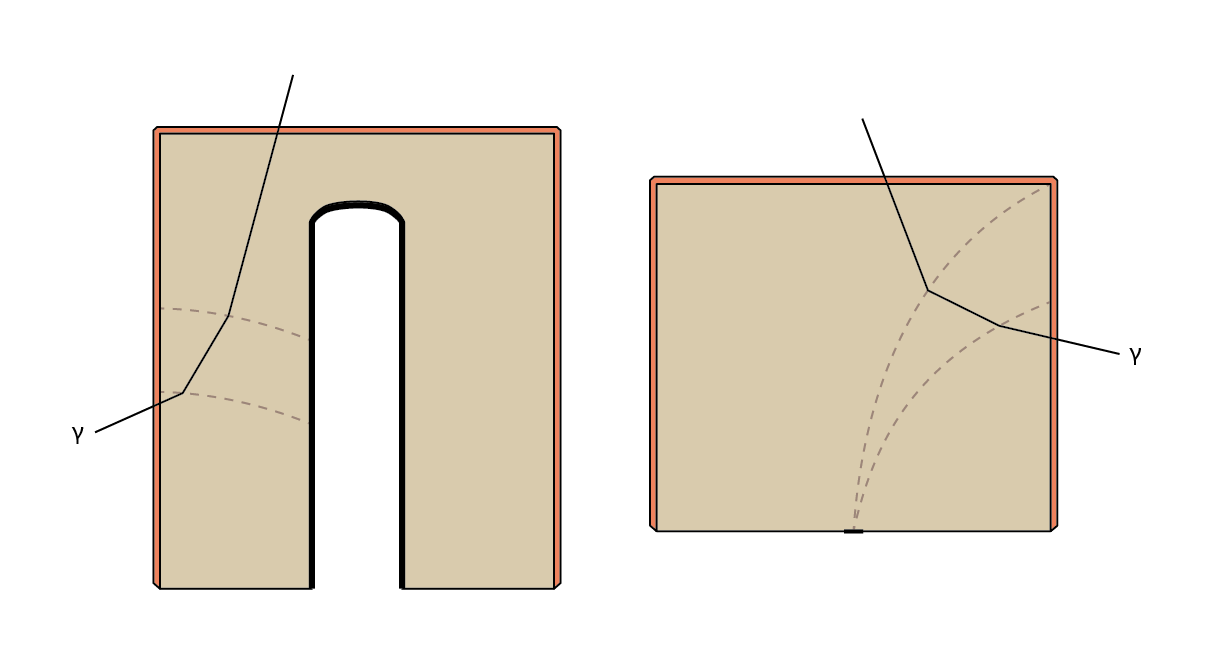 Comparison of coaxial and point contact germanium detectors